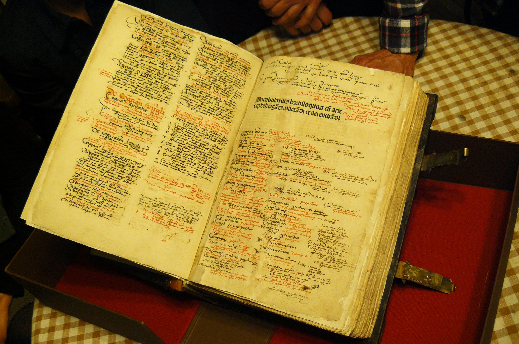 Vocabularis breviloquus, from Library of UAM, Poznan.